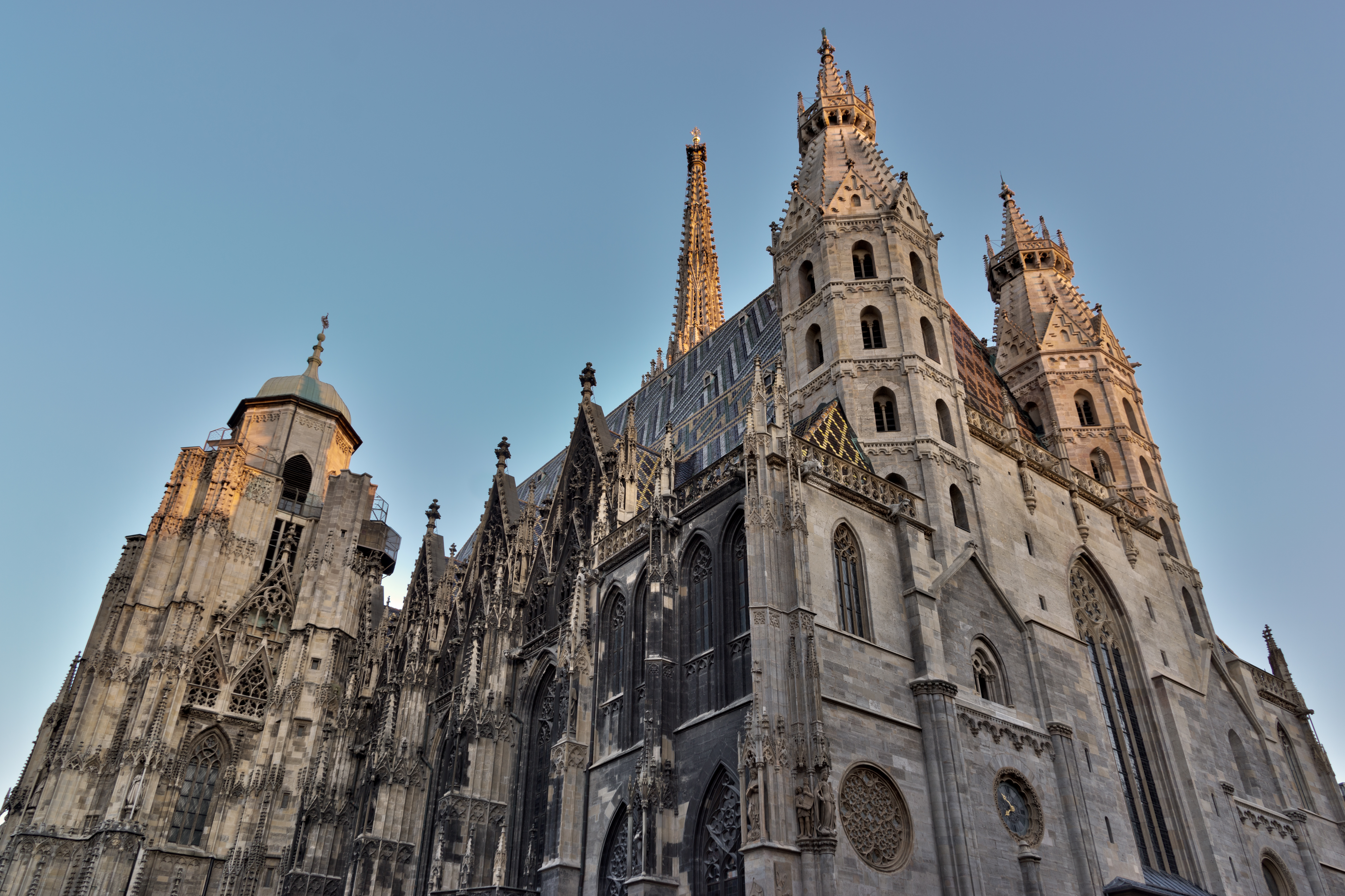 I'm not completely happy with this picture but is very hard to photograph this without an ultra wide angle lens. Also the other facade was being restored when I was there and didn't look very good.